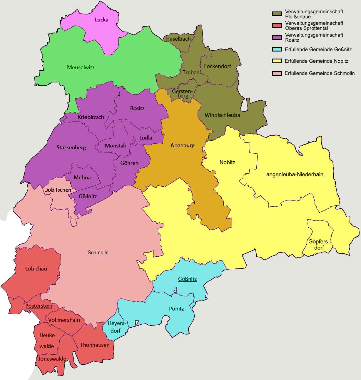 Cities and municipalities in district of Altenburger Land/Thuringia (Germany)